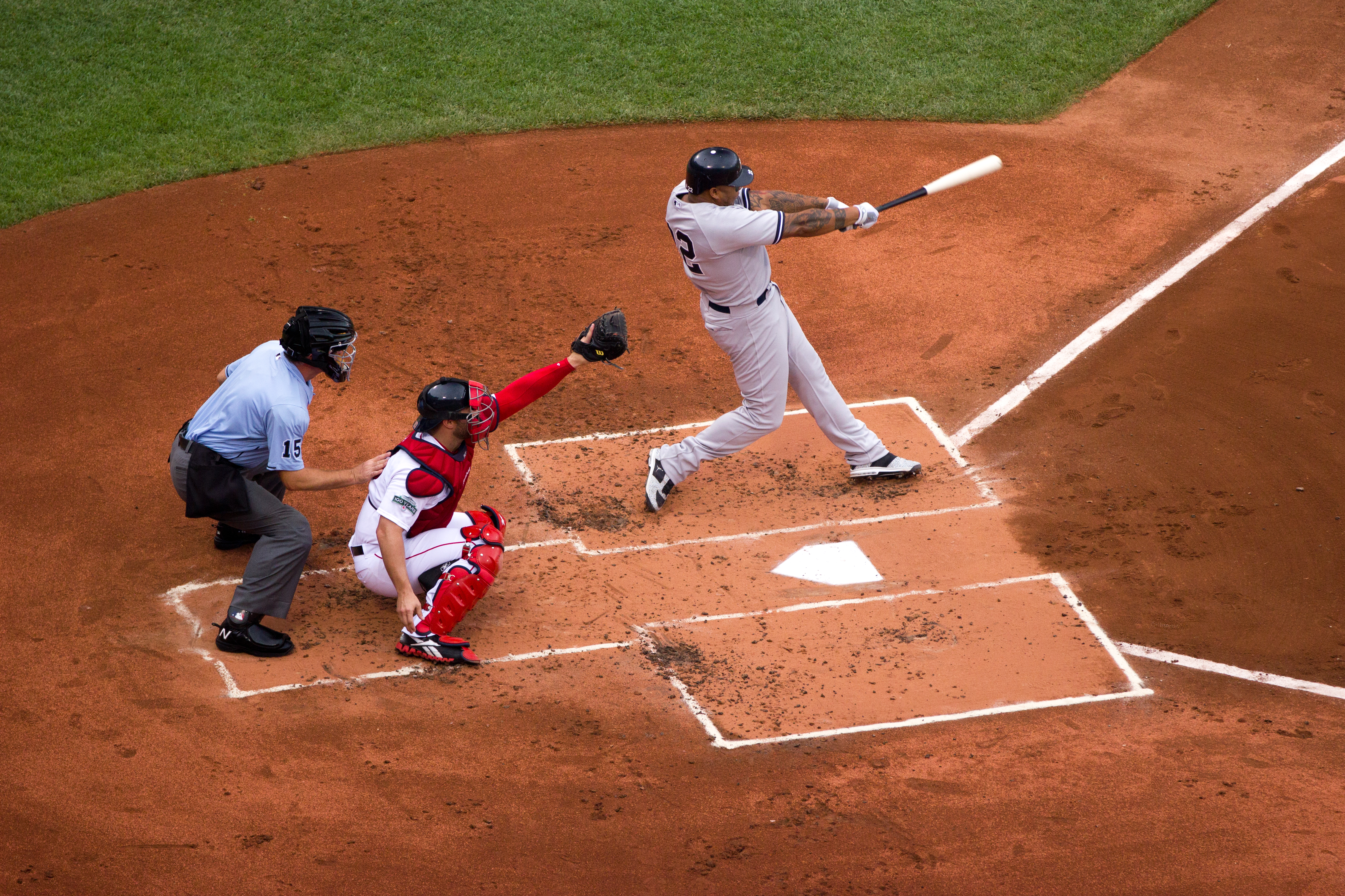 Red Sox Yankees Game Boston July 2012